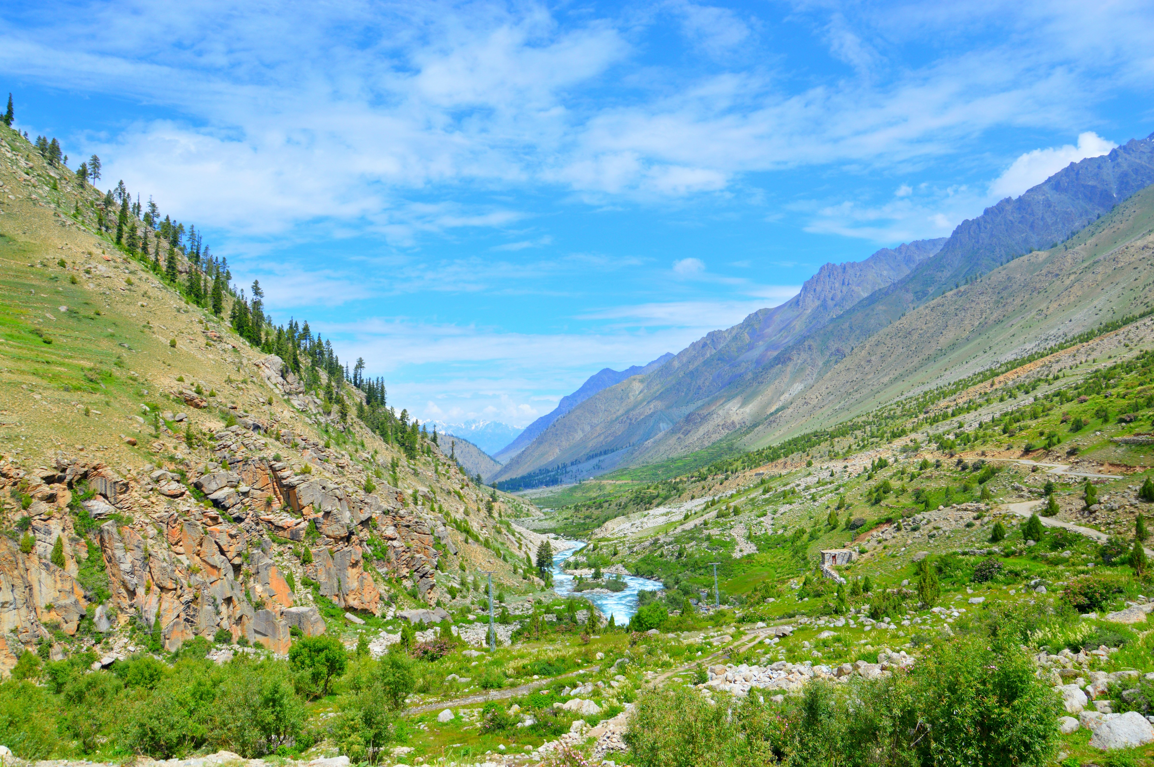 this picture is captured from the uper gorikot .